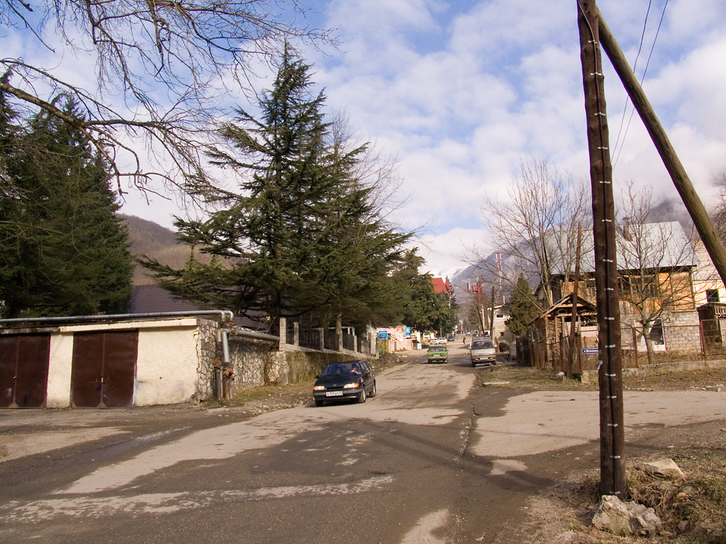 in the center of Krasnaya Polyana